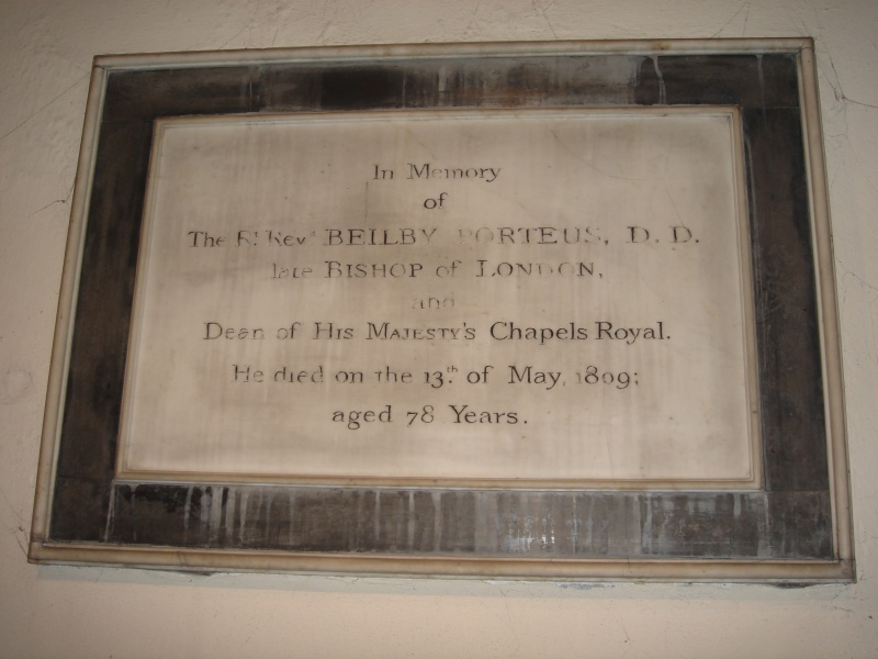 Beilby Porteus monument, All Saints Church, Fulham, London